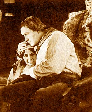 Excerpt from The Squaw Man (1914 film). Dustin Farnum and Red Wing.